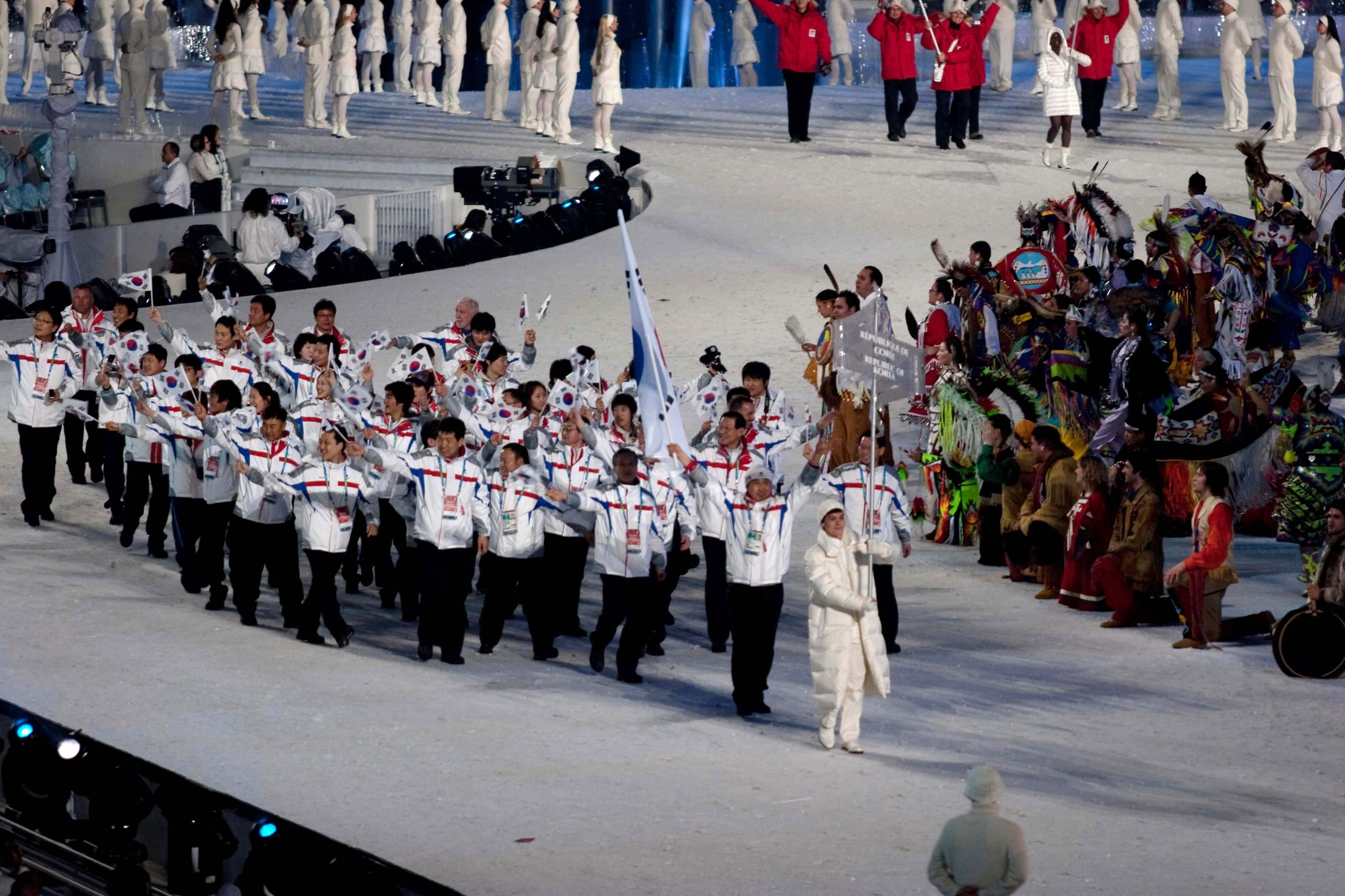 The athletes from South Korea entering the stadium at the opening ceremonies of the 2010 Winter Olympics